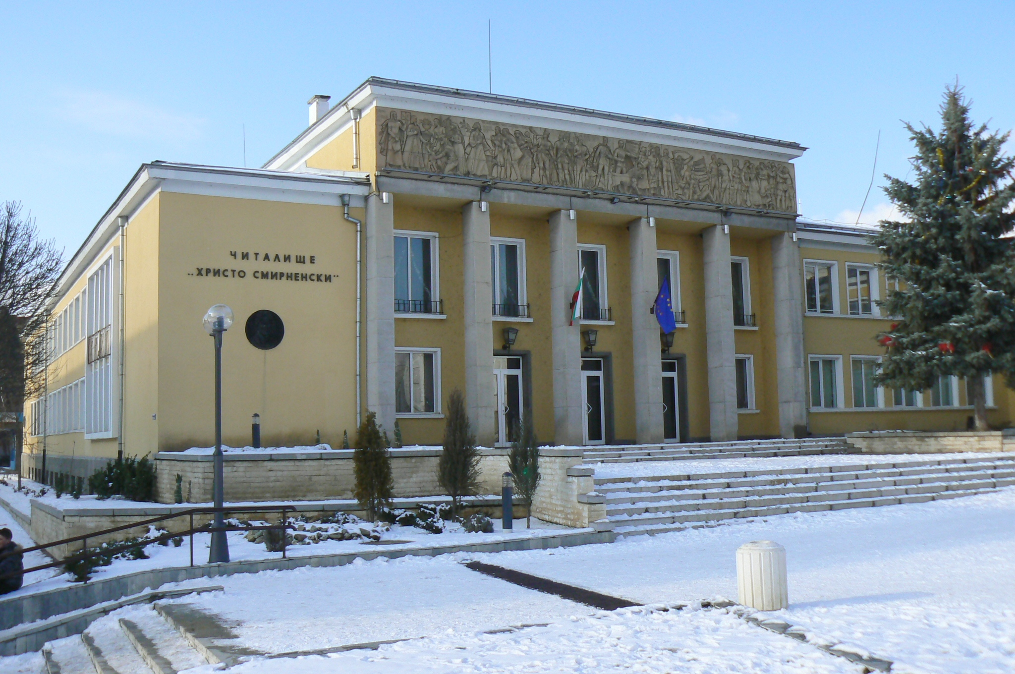 The library of Zlatitsa, Bulgaria